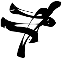 A character/glyph produced by Golan Levin's Alphabet Synthesis Machine, a genetic algorithm designed to produce fake alphabets and character sets.